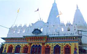 GURSARAI